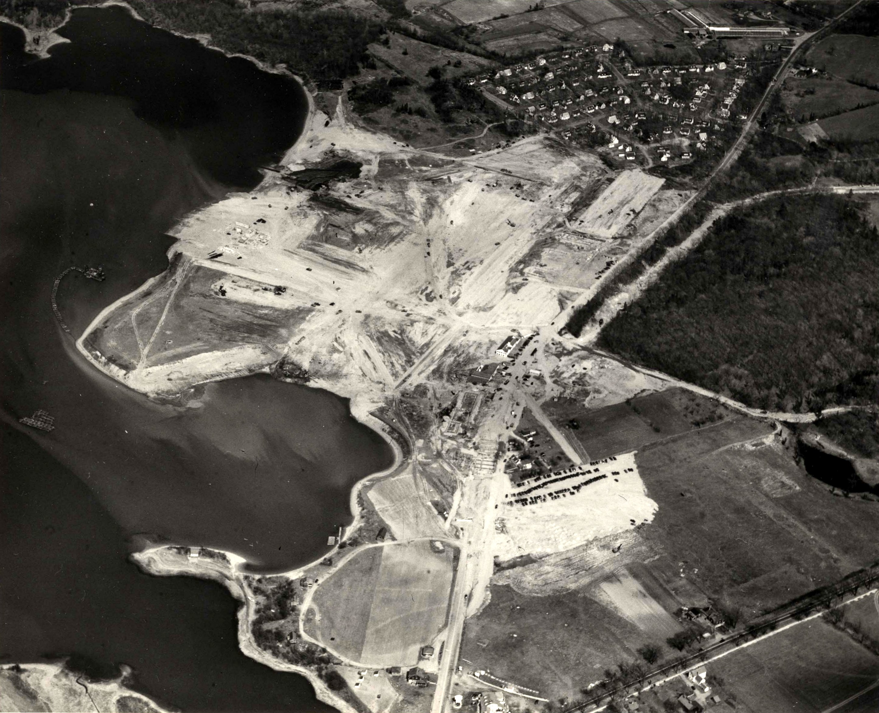 High angle view of the construction of the Bethlehem Hingham Shipyard, Hingham, Massachusetts (USA), on 17 April 1942.